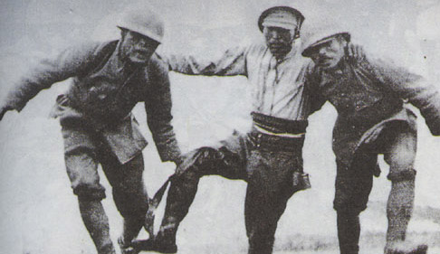 Two Japanese soldiers helping a wounded comrade off the battlefield near Suzhou Creek, Shanghai, China, late Oct 1937